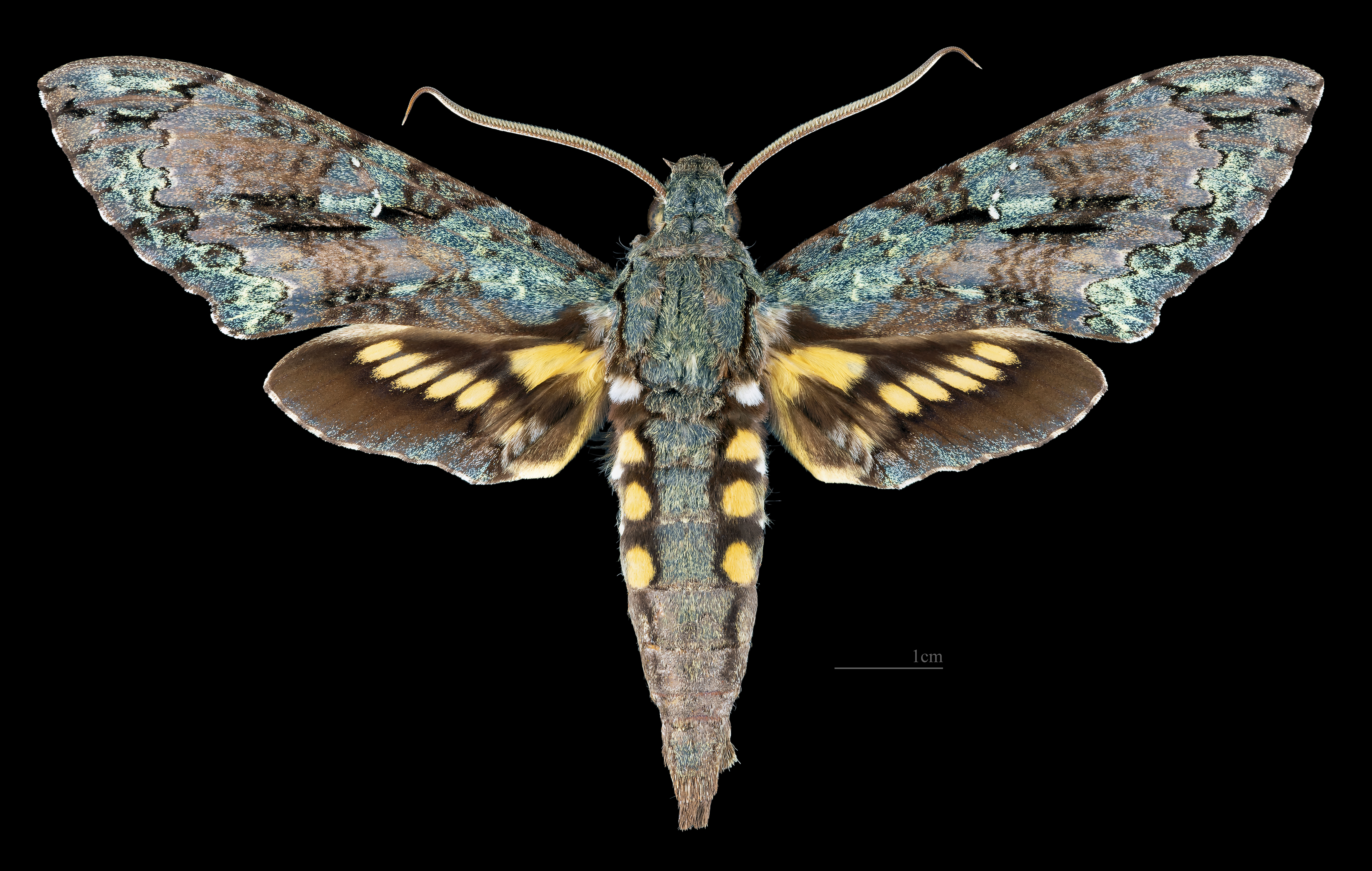 Pseudococytius beelzebuth - Dorsal side Collection of the Mathematician Laurent Schwartz